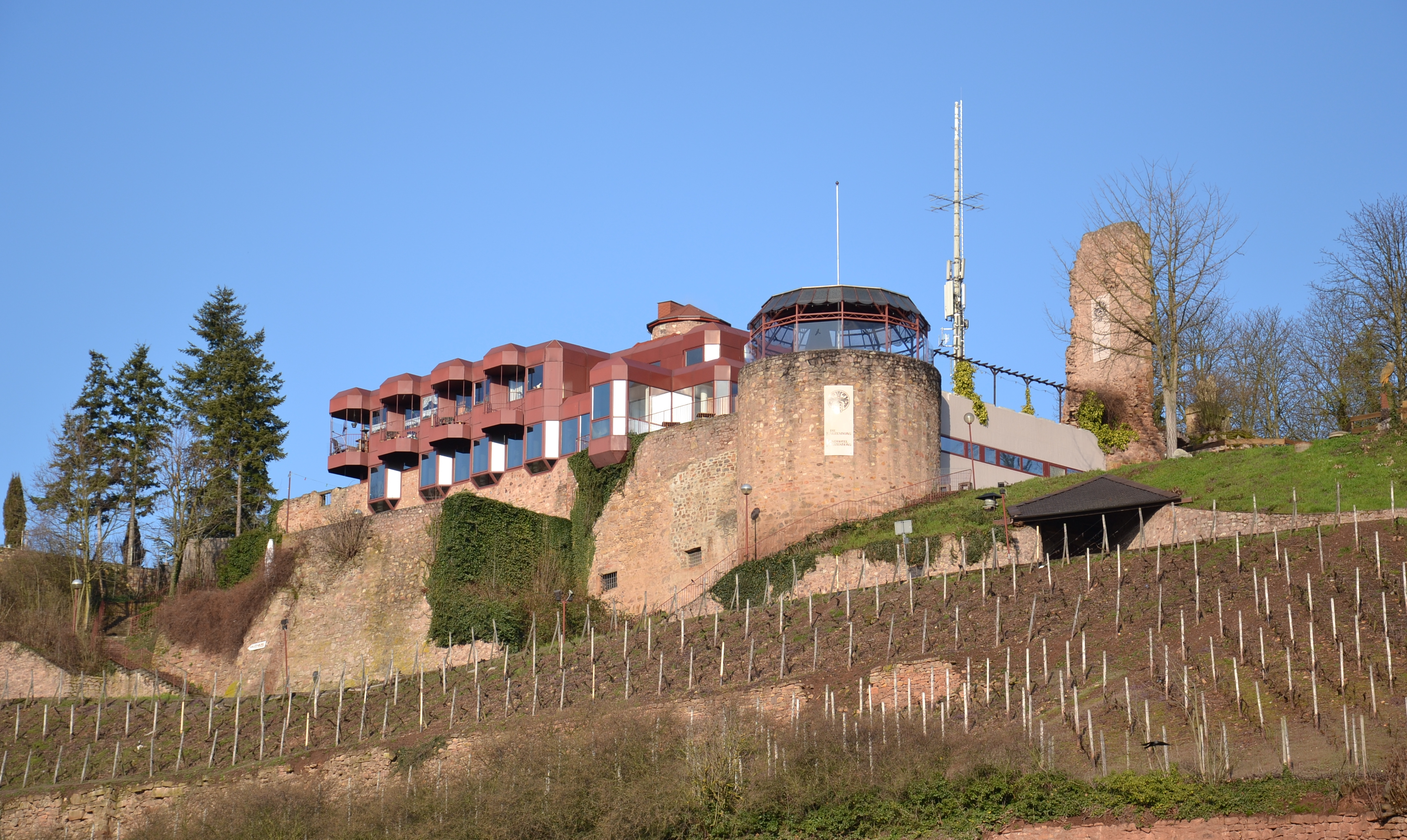 Ruins of Kauzenburg castle, Bad Kreuznach, Germany